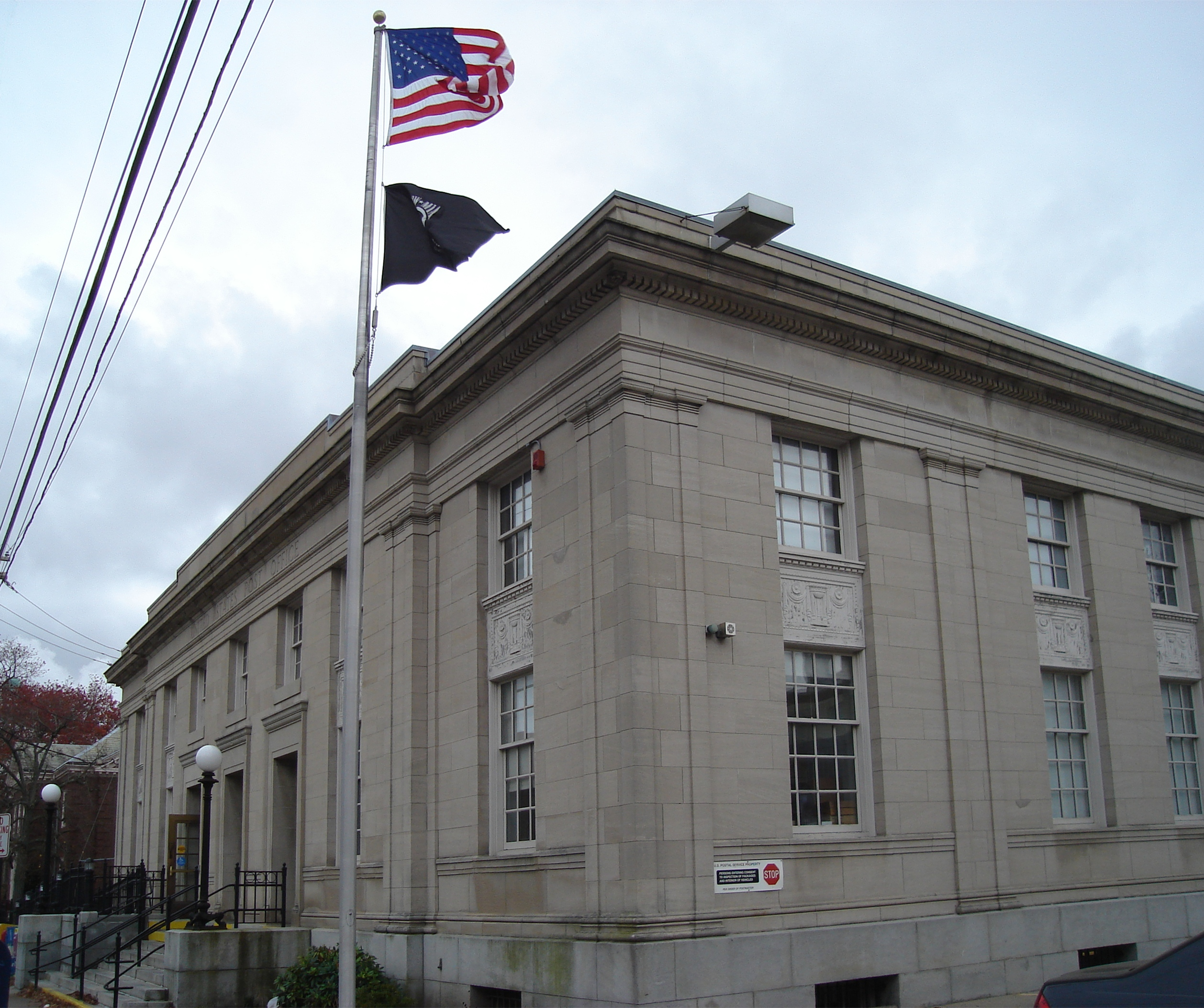 US Post Office-Quincy Main building in Quincy, Massachusetts, built in 1909 and added to the National Register of Historic Places in 1986. External link